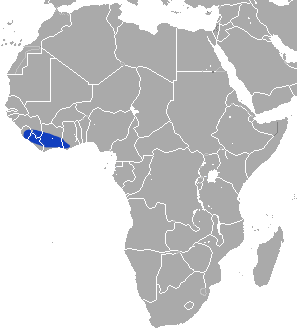 Therese's Shrew (Crocidura theresae) range